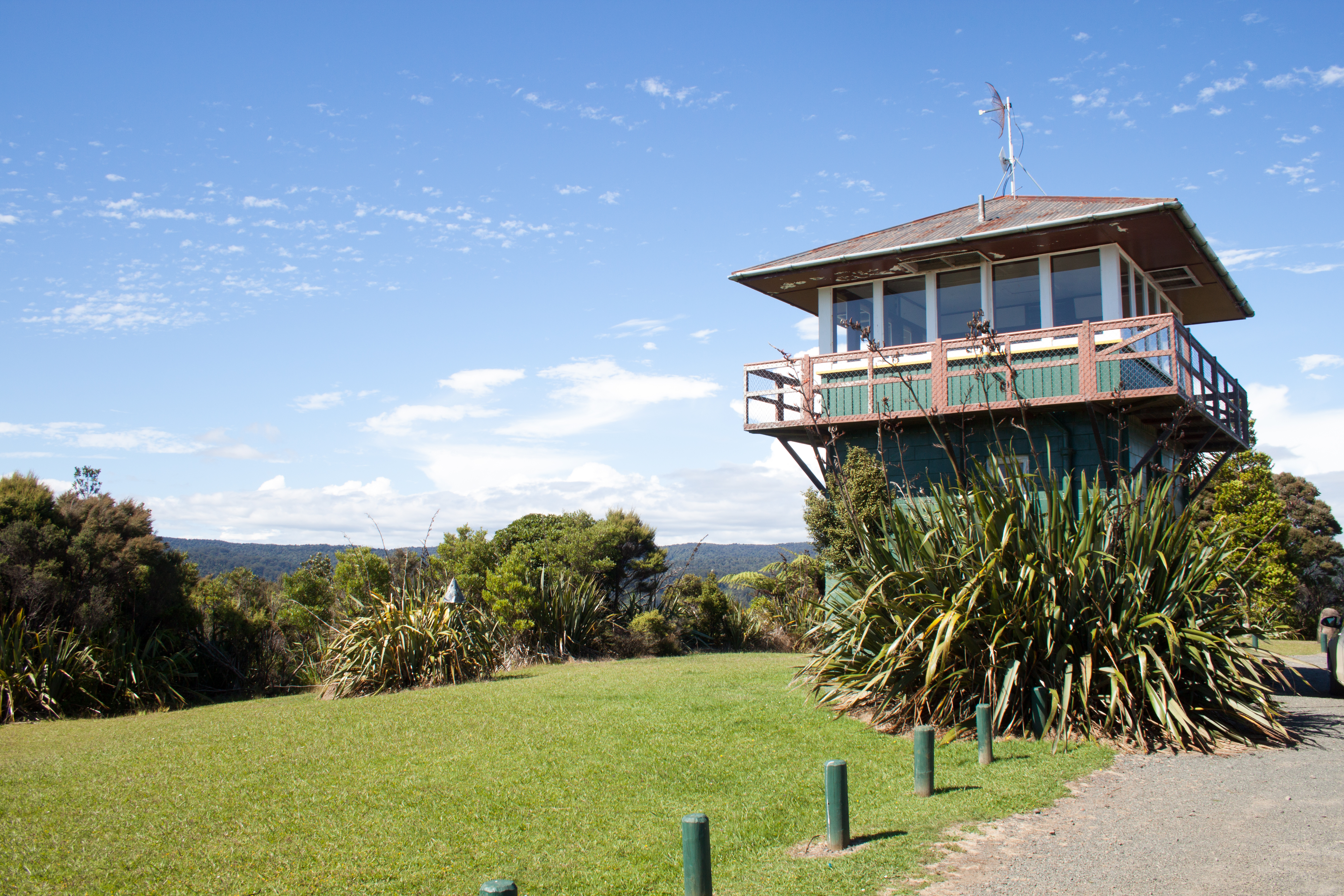 Waipoua Forest, old fire lookout tower